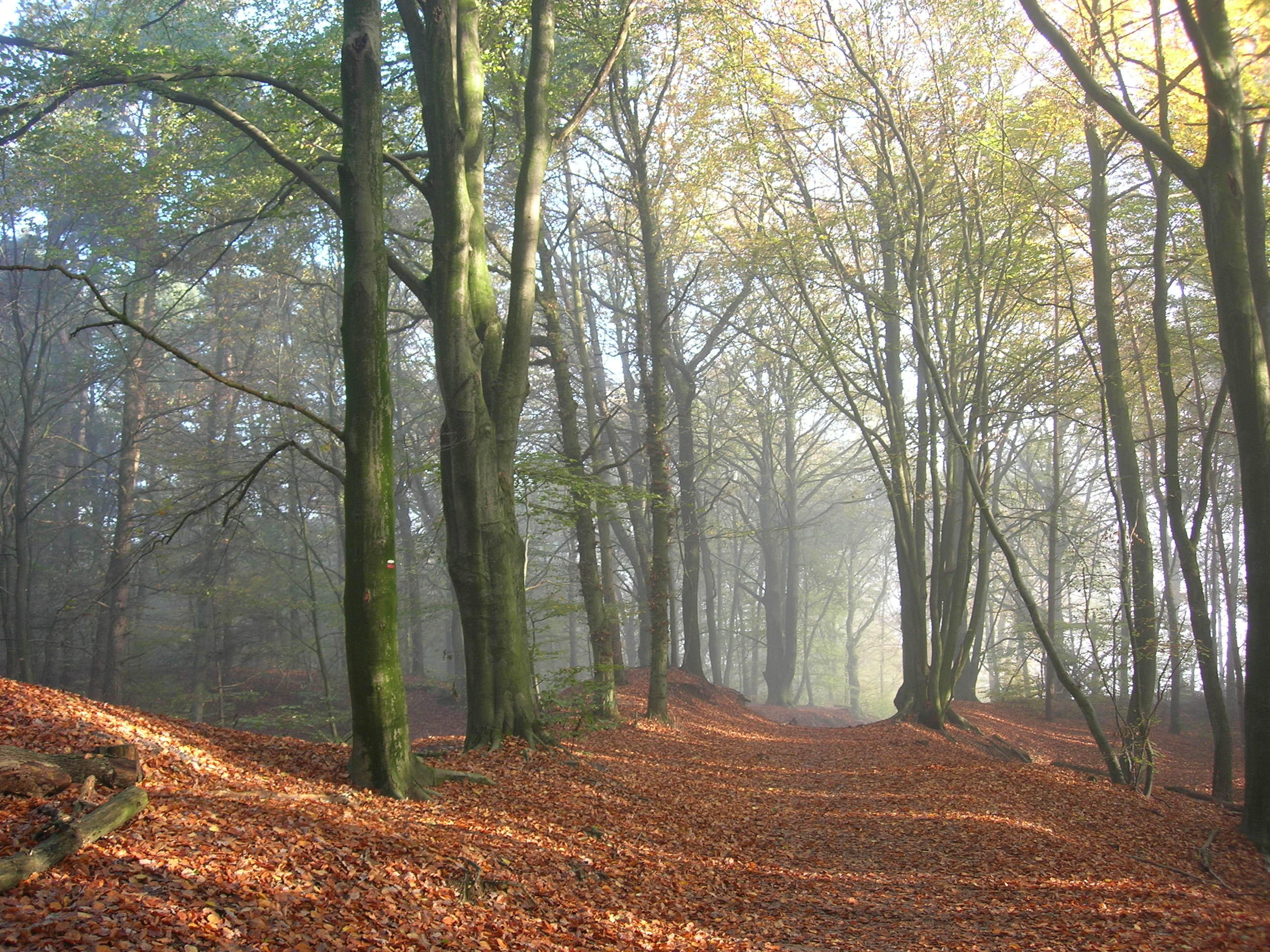 The Pieterpad near Doetinchem